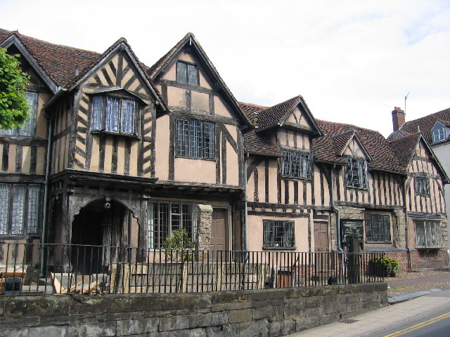 Lord Leycester Hospital, High Street, Warwick: a 16th-century set of almshouses incorporating the 14th- and late-15th-century hall of a guild